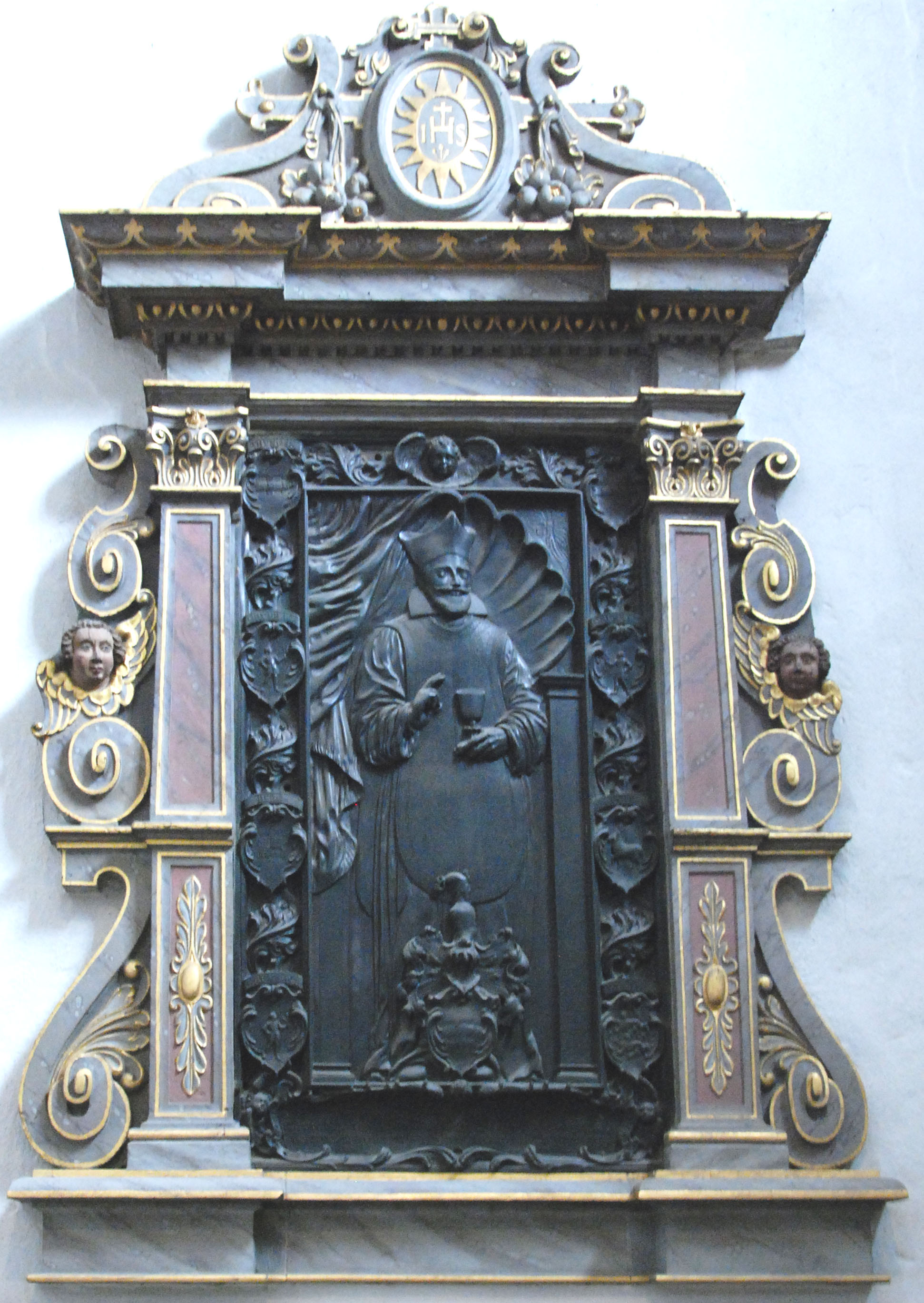 Konrad Friedrich von Thüngen died 1629 Wurzburg Cathedral